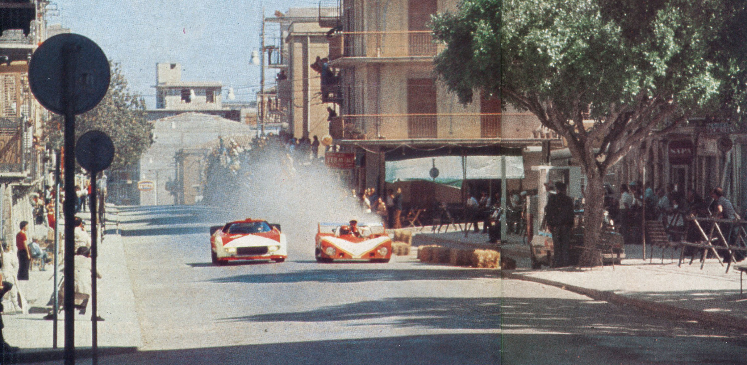 Cerda (Sicily, Italy), "Piccolo Madonie" road circuit, June 9, 1974. From right to left: Pino Pica's Lola-Ford T284, sponsored Motul, overtakes Gérard Larrousse's Lancia Stratos HF 2.4 V6 (Prototype), sponsored Marlboro, on lap 2 of the 1974 Targa Florio.